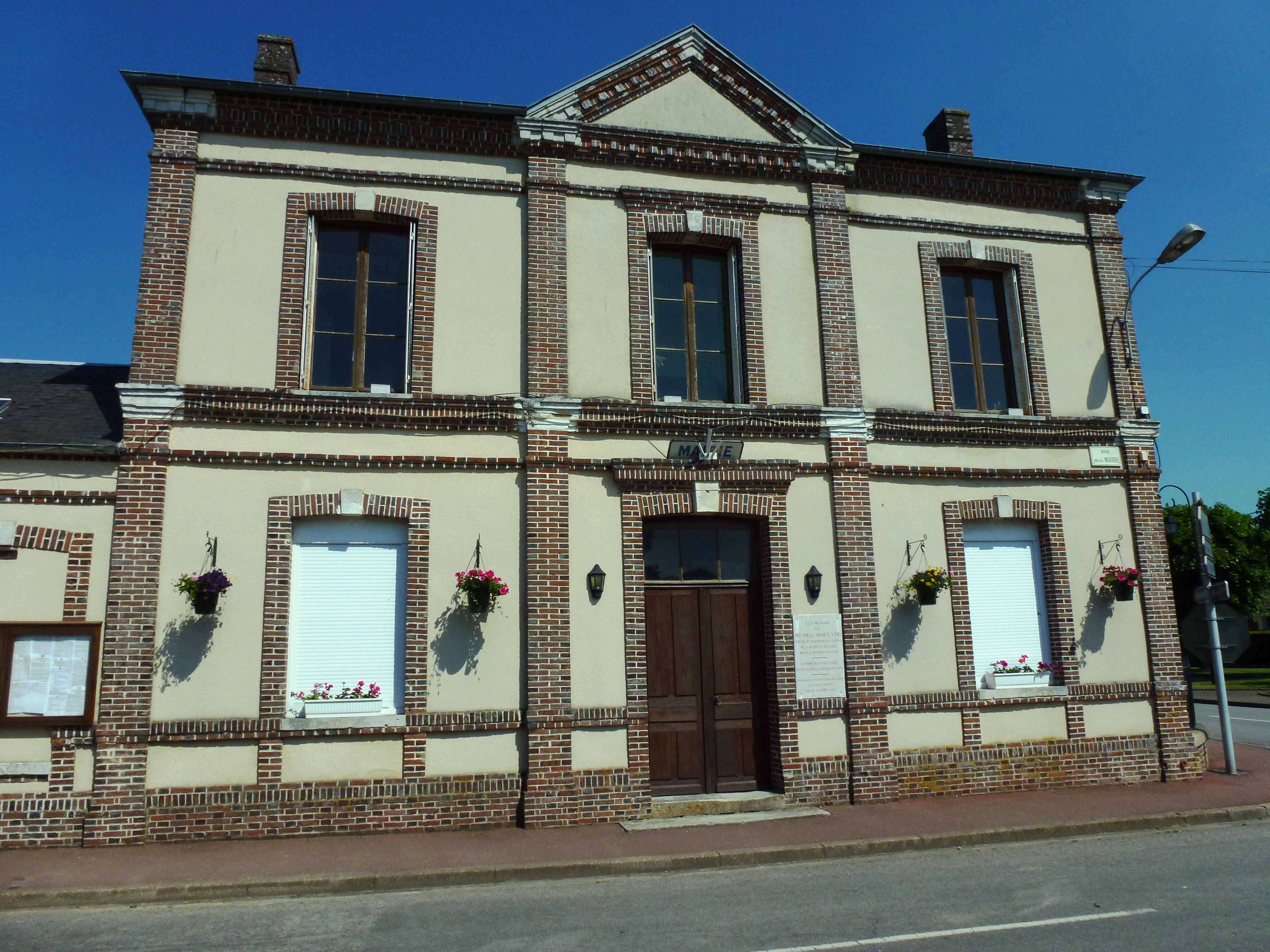 Romilly-La Puthenaye (Eure, Fr) mairie